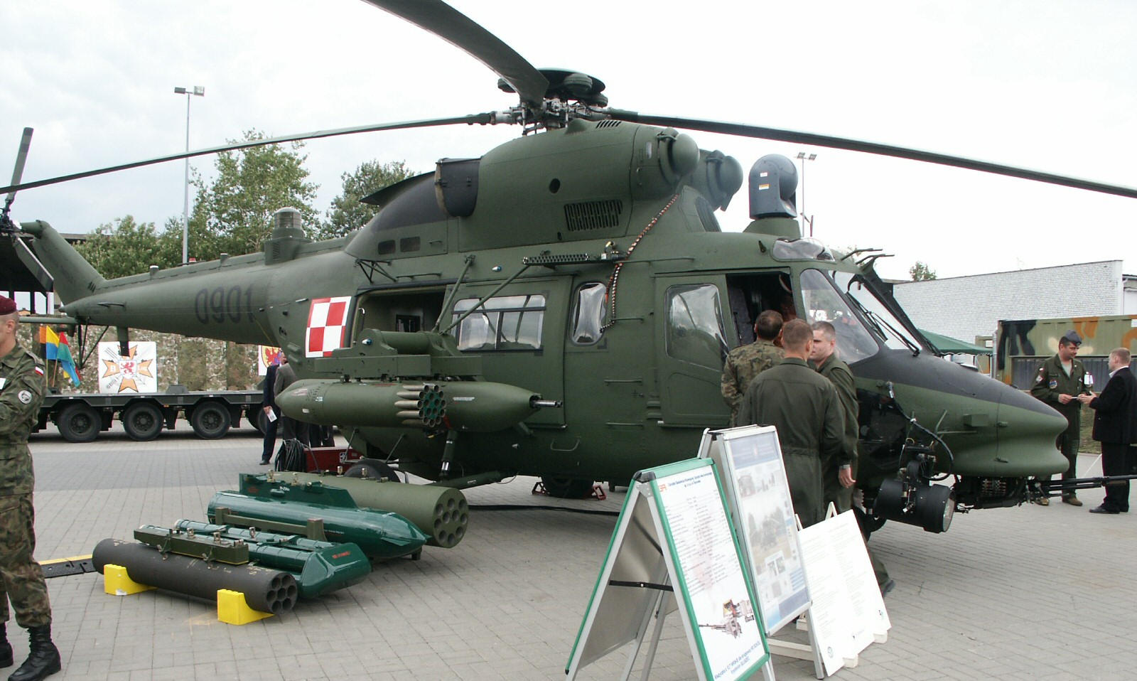 Polish W-3PL Głuszec helicopter prototype.